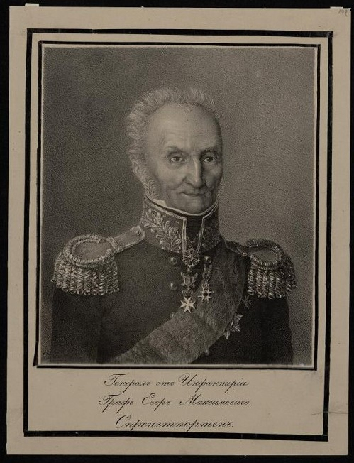 Sprengtporten Egor Maximovich